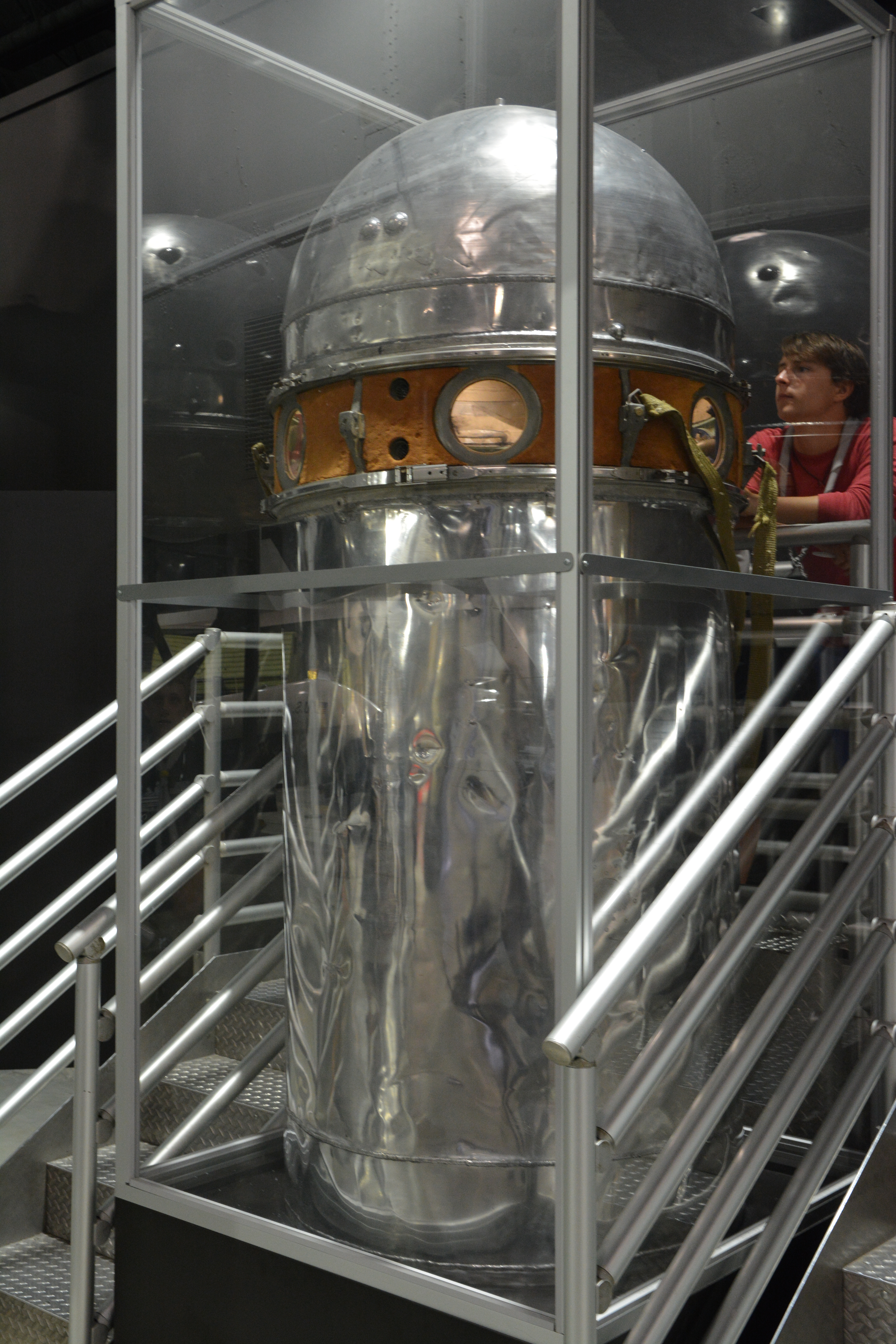 Project Manhigh, National Museum of USAF, Dayton, Ohio, US